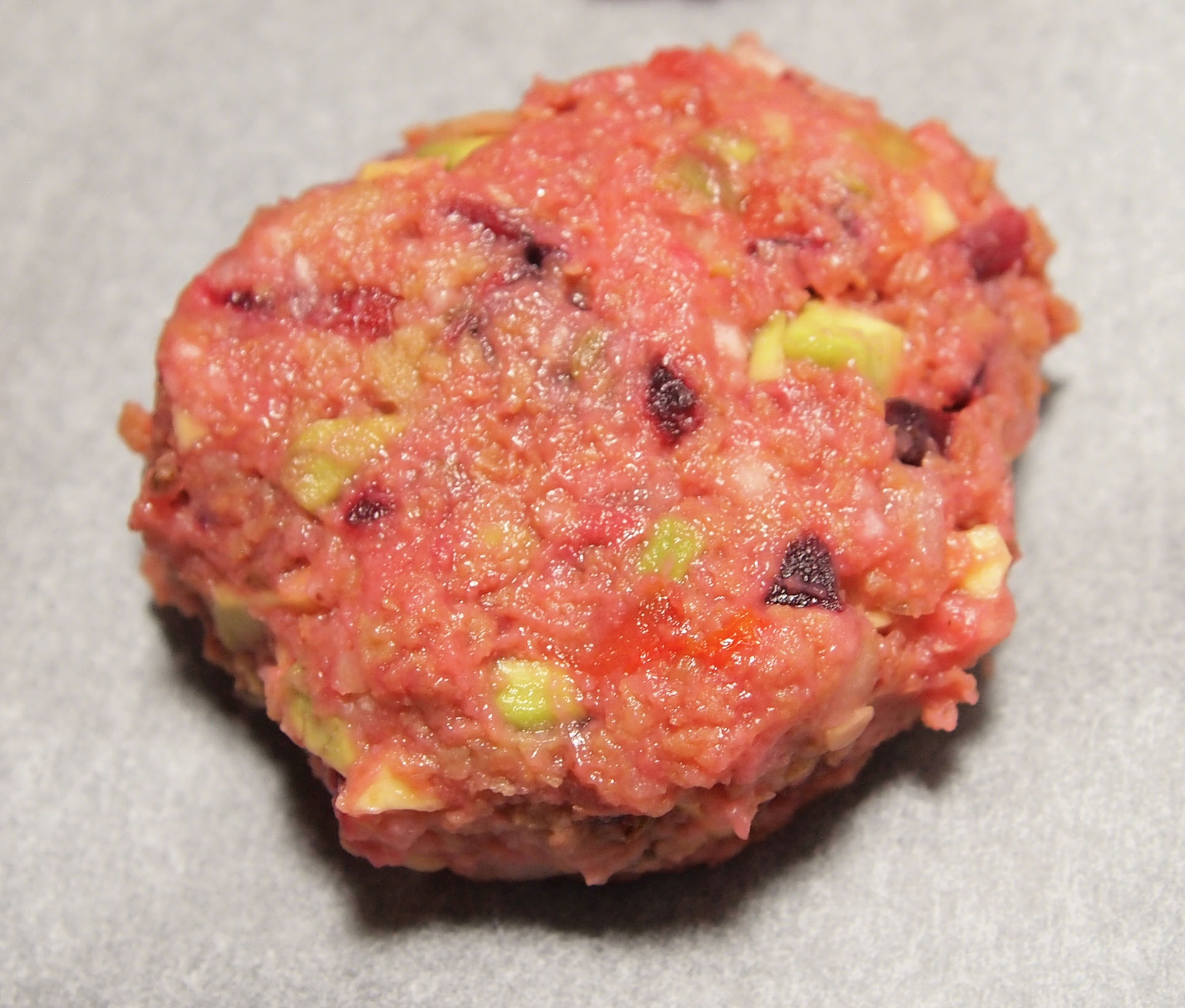 Raw "Steak" made of soy crush, tomato, avocado and beetroot.